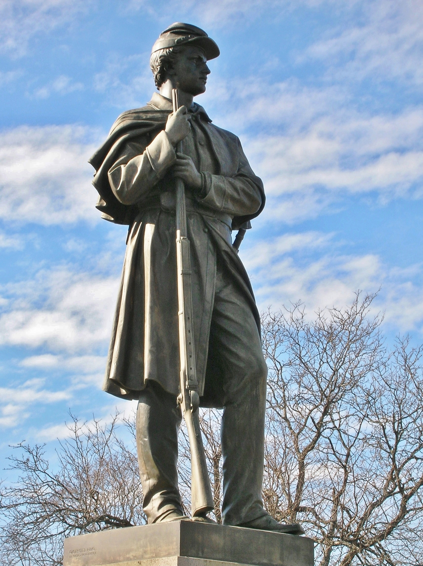 Civil War Soldier, sculpted by Carl Conrads in 1876. Located on town green in Manchester, Connecticut. Photo was taken 1/30/2016.